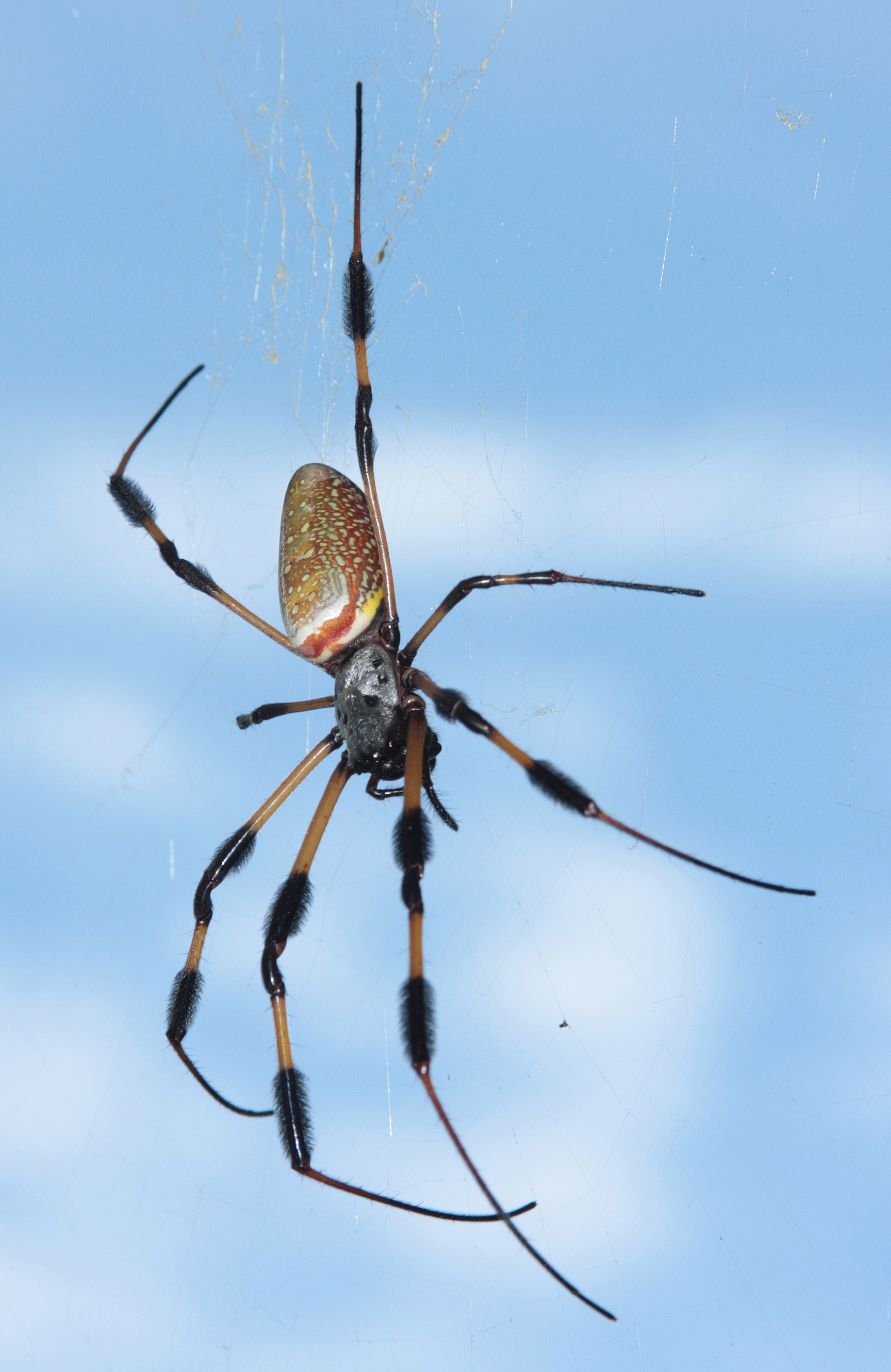 An orb-weaving spider (Nephila clavipes)